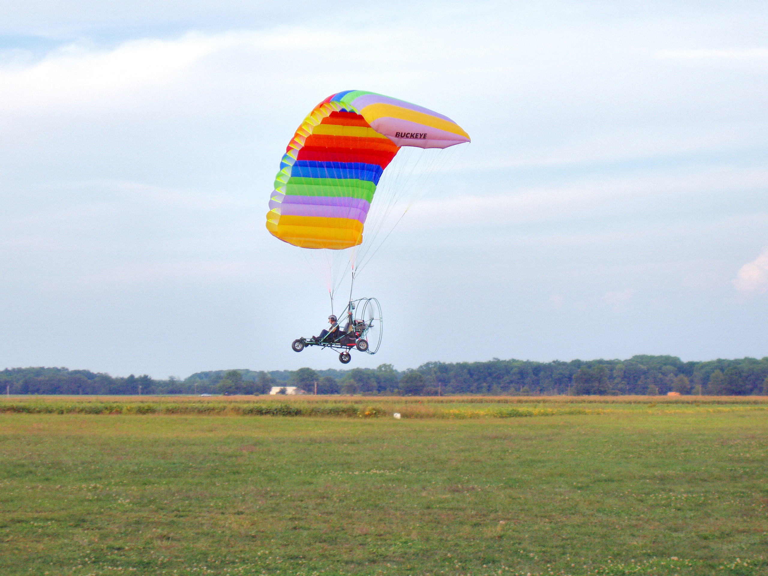 Powered parachute ultralight aircraft in sideview. Photo shot by Derek Jensen (Tysto), 2005-August-29